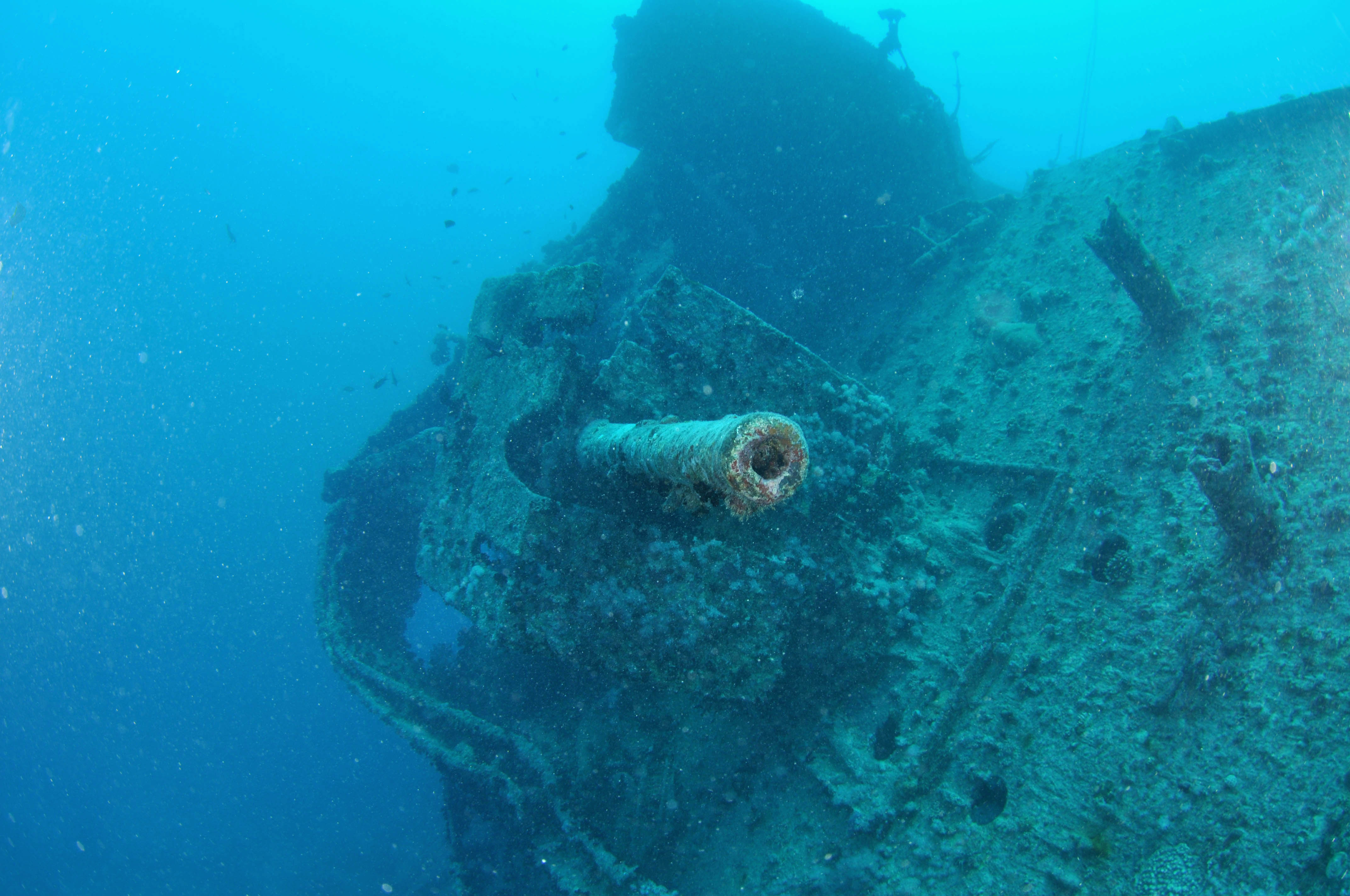 Thistlegorm gun